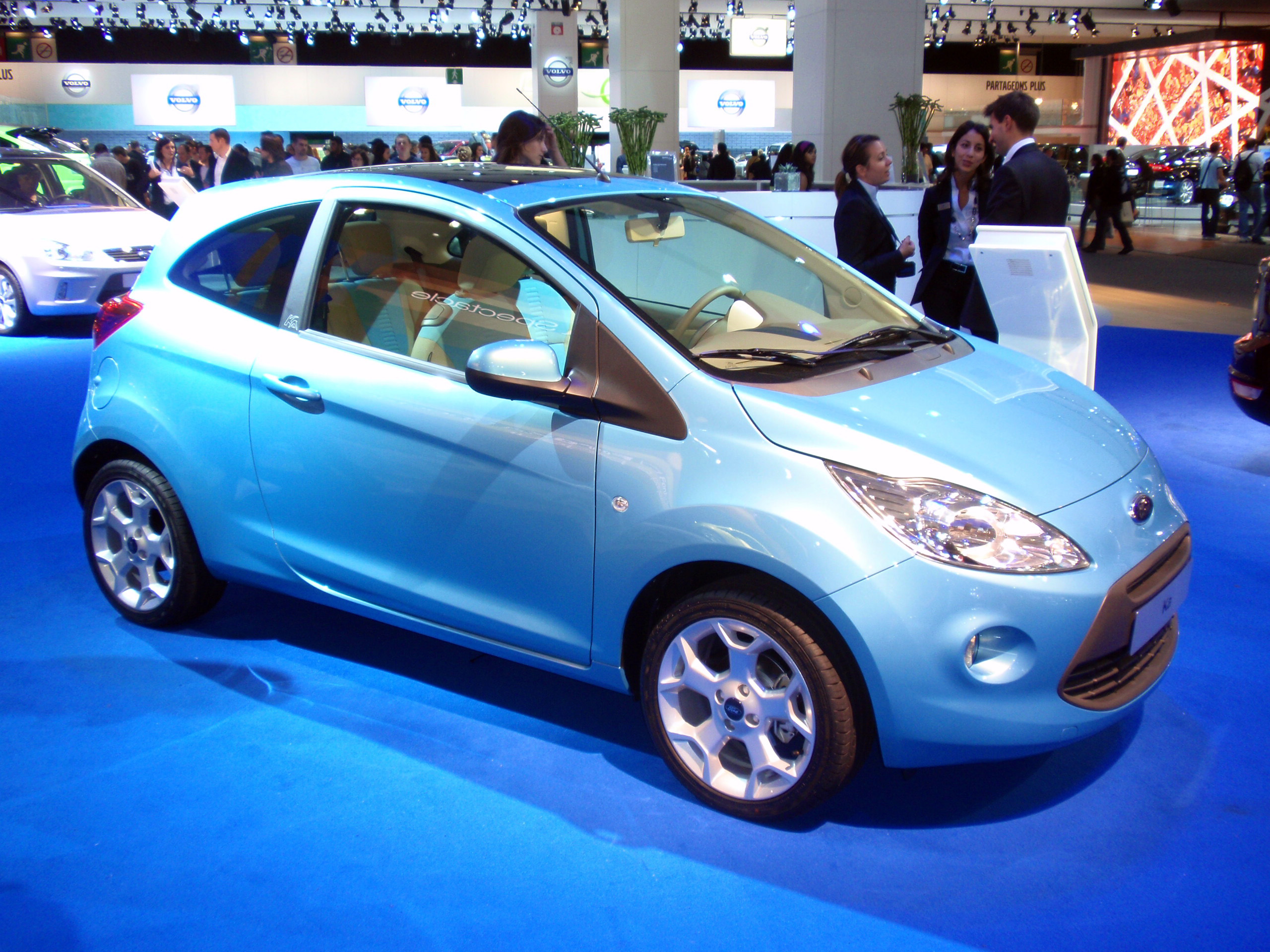 2nd-gen Ford Ka at the 2008 Paris Motor Show